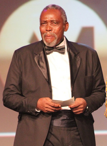 Olu Jacobs and Joke Silva at the 2014 Africa Magic Viewers Choice Awards